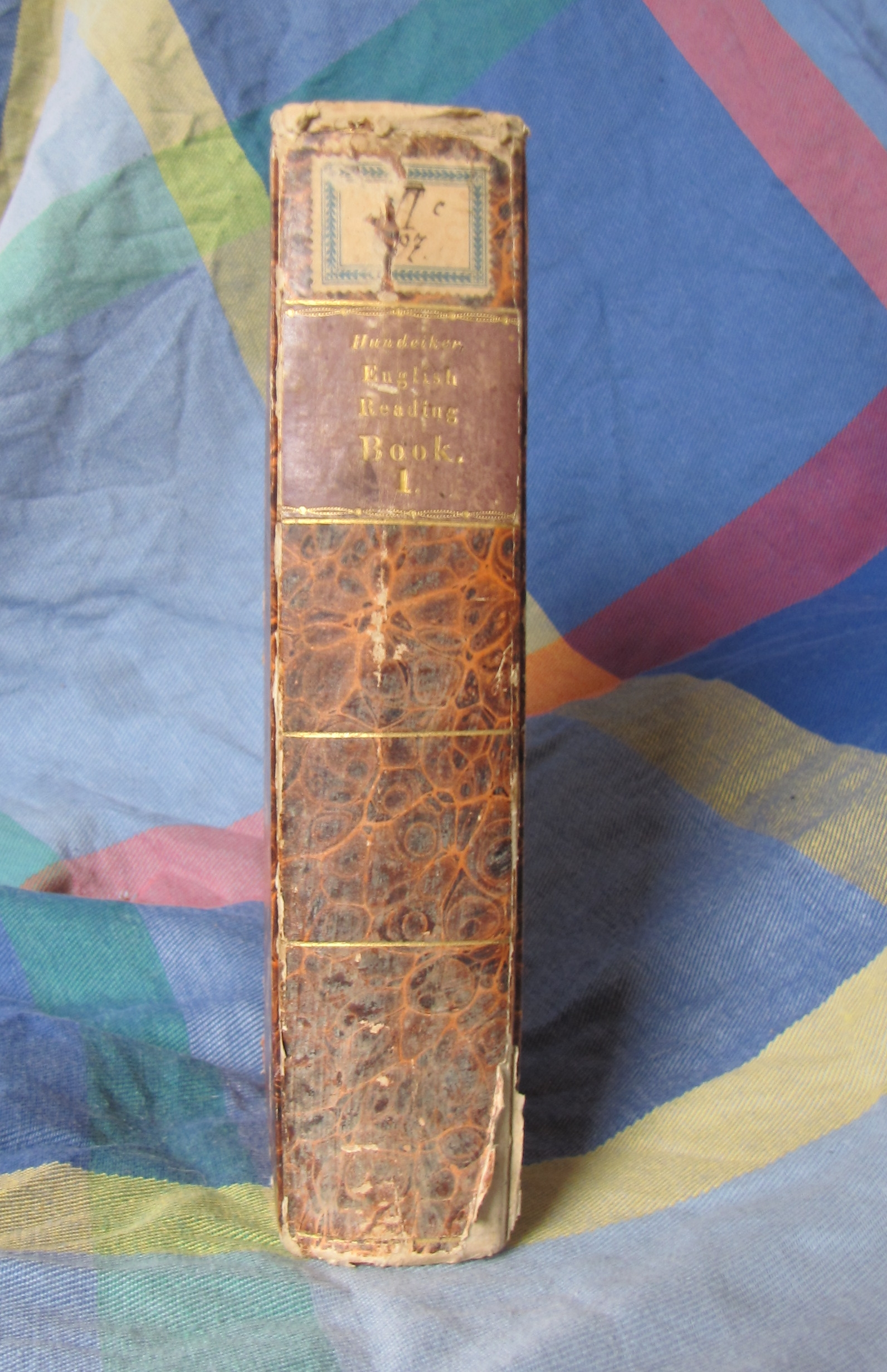 English Reading Book by Dr. Wilhelm Theodor Hundeiker, Bremen 1835